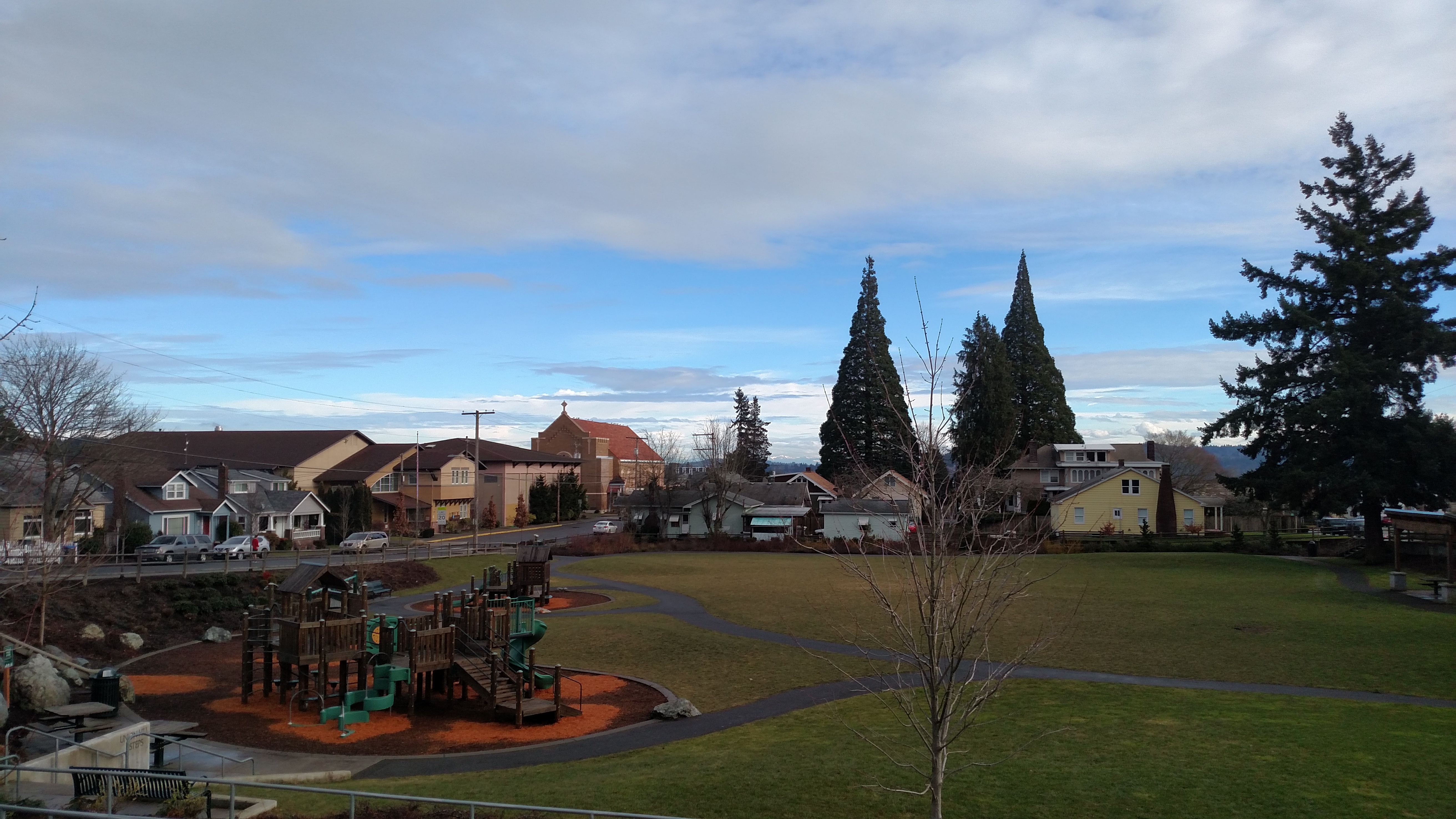 The giant Sequoias and Our Lady Star of the Sea Catholic church, as seen from the upper deck of Kiwanis Park in the Union Hill neighborhood of Bremerton, Washington.